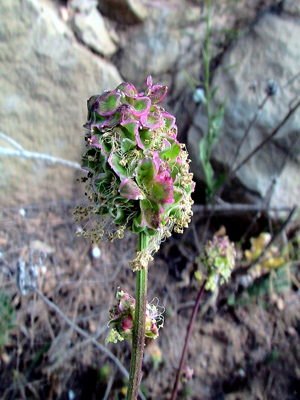 Sanguisorba minor. In Torà (Segarra-Catalunya). To 590 m. altitude